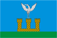 Shakhovskaya (Moscow oblast), flag